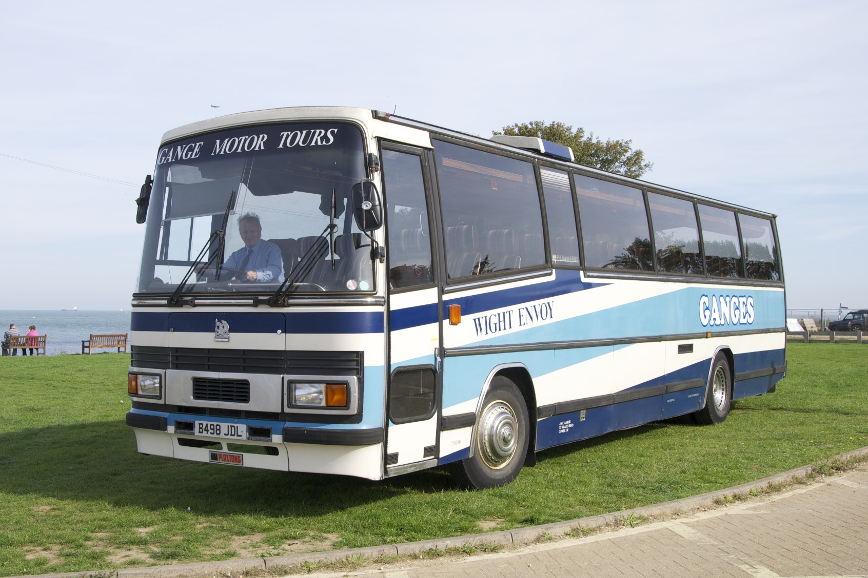 Ex-Moss Motor Tours coach in service on the Isle of Wight with Gange's Coaches.